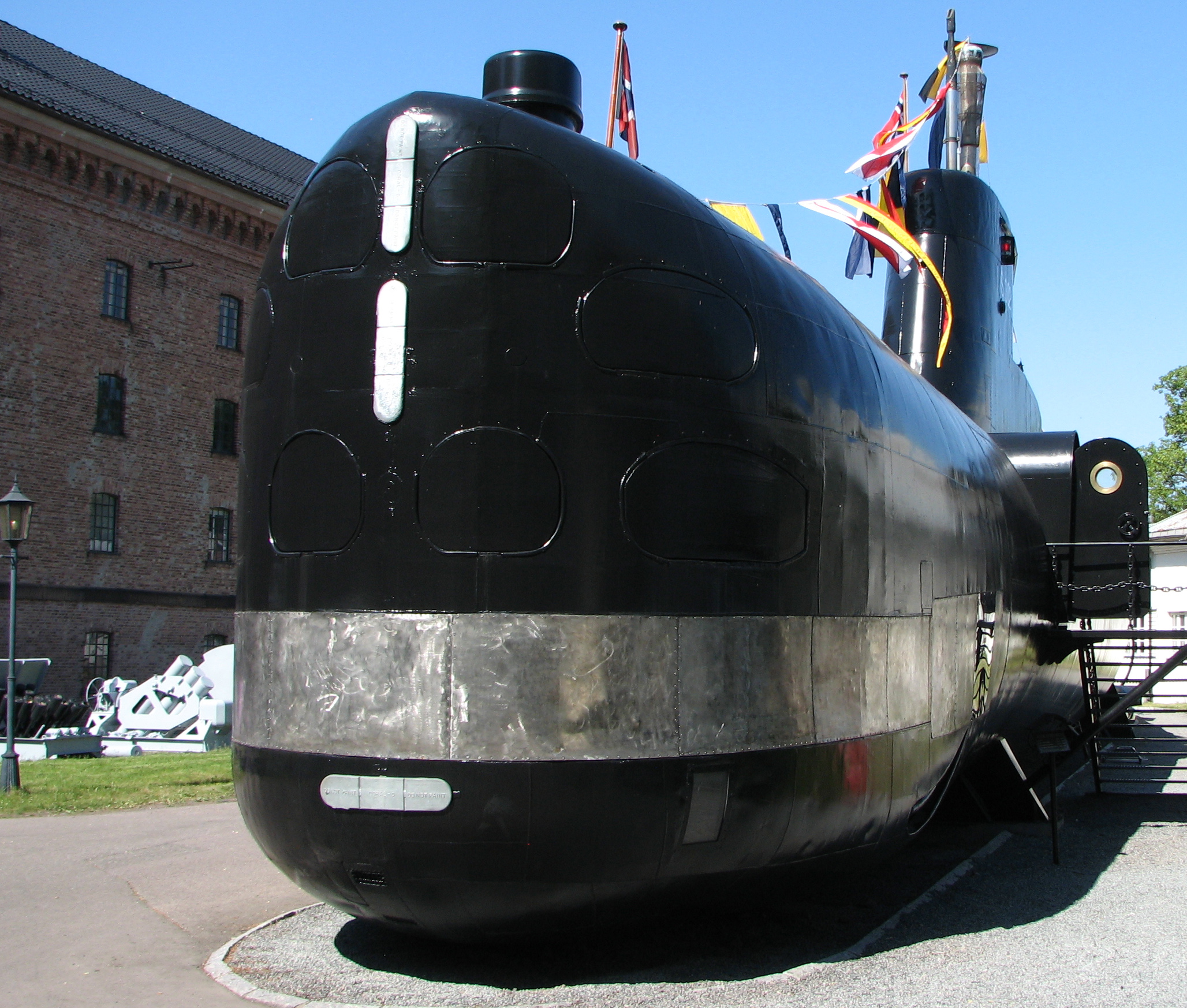 Norwegian submarine MMU Utstein, Kobben class Norsk (bokmål): Ubåten MMU Utstein i Kobben-klassen, ved Marinemuseet i Horten